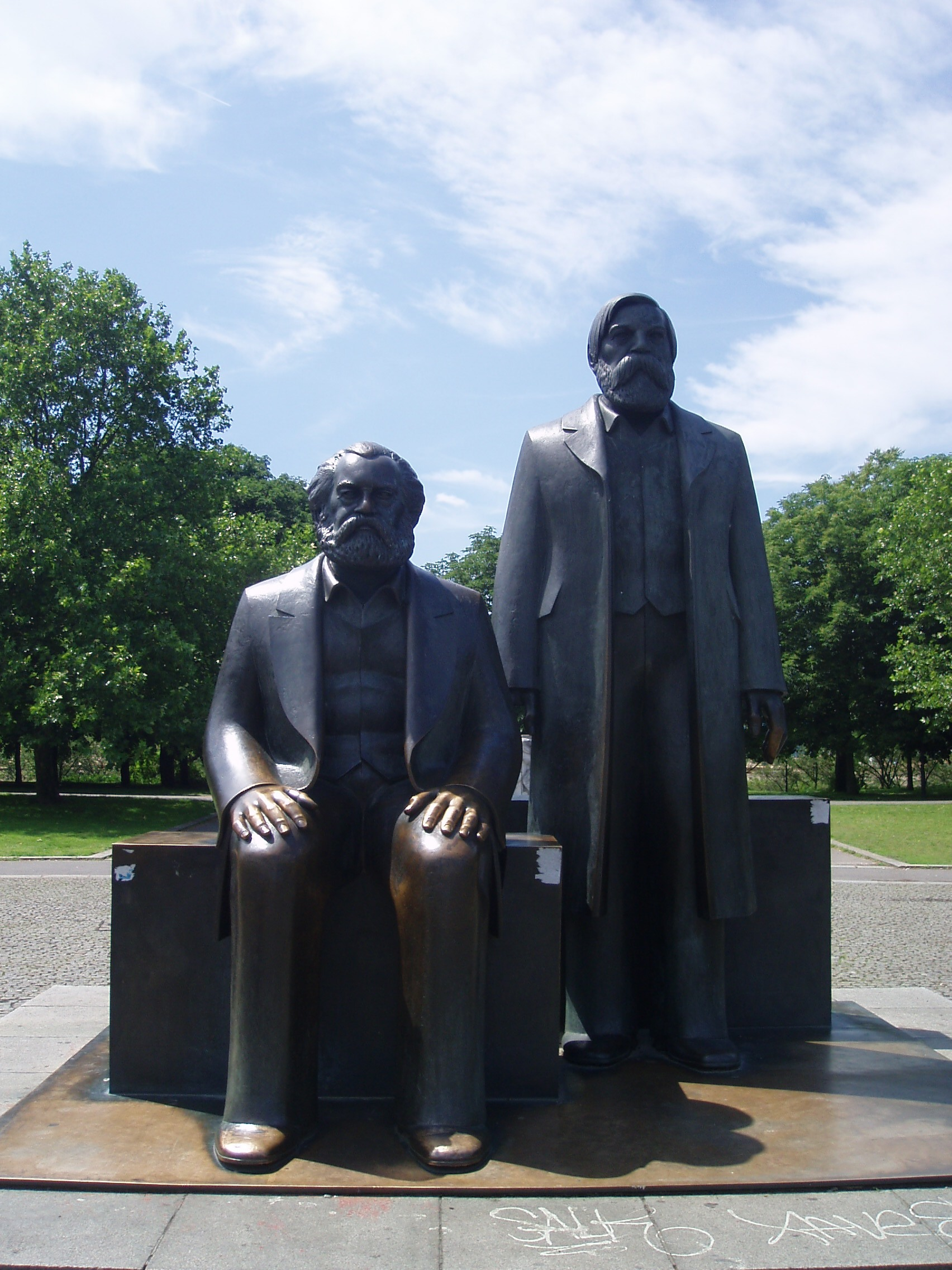 Sculpture of Marx and Engels in the Marx-Engels-Forum, Berlin, Germany.